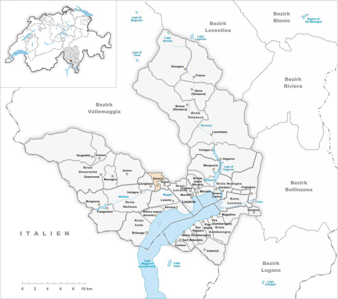 Municipality Verscio